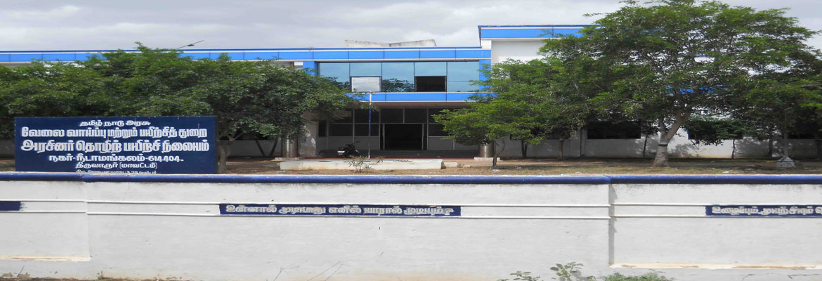 NidamangalamITI